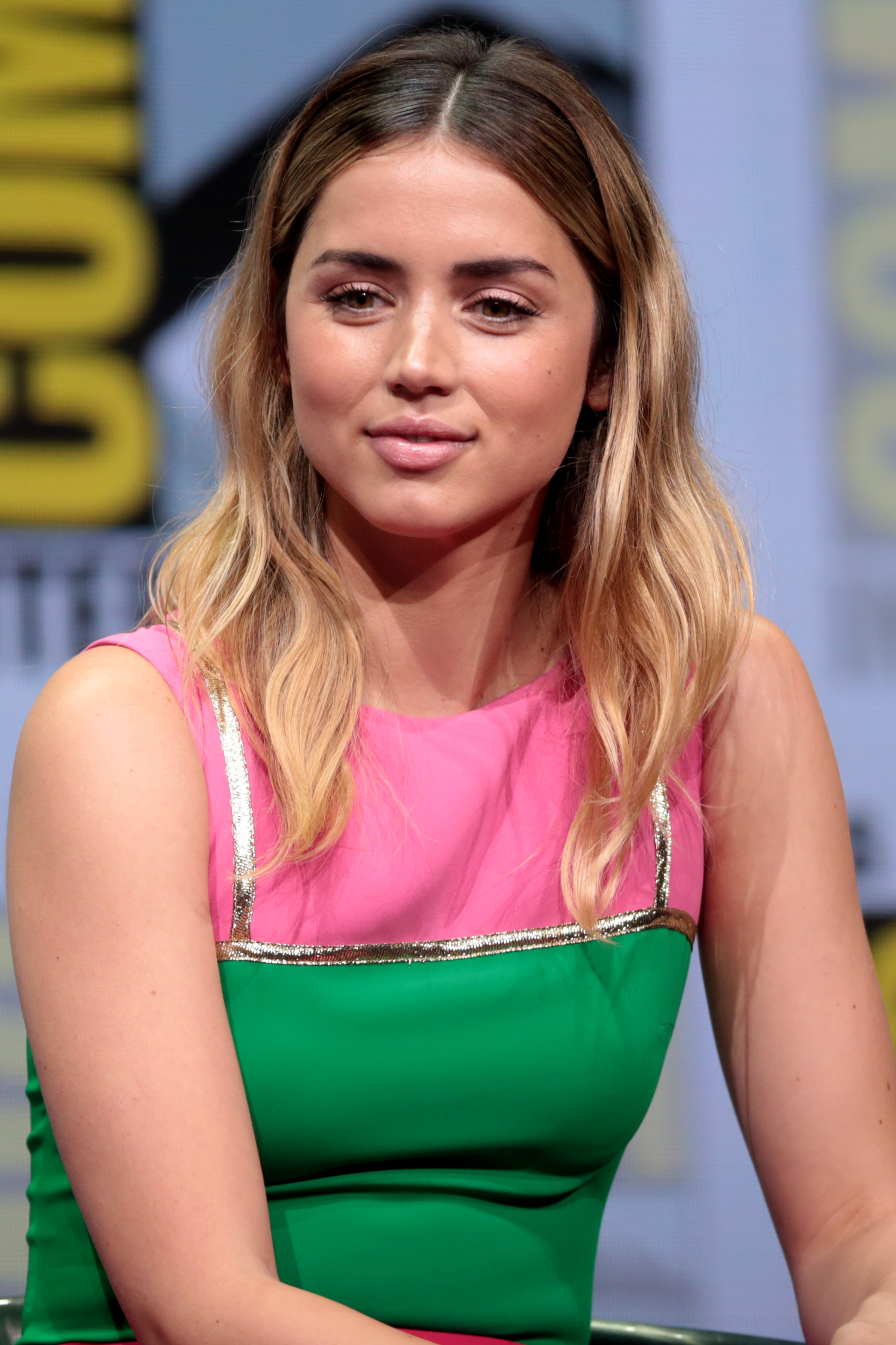 Ana de Armas speaking at the 2017 San Diego Comic Con International, for "Blade Runner 2049", at the San Diego Convention Center in San Diego, California.